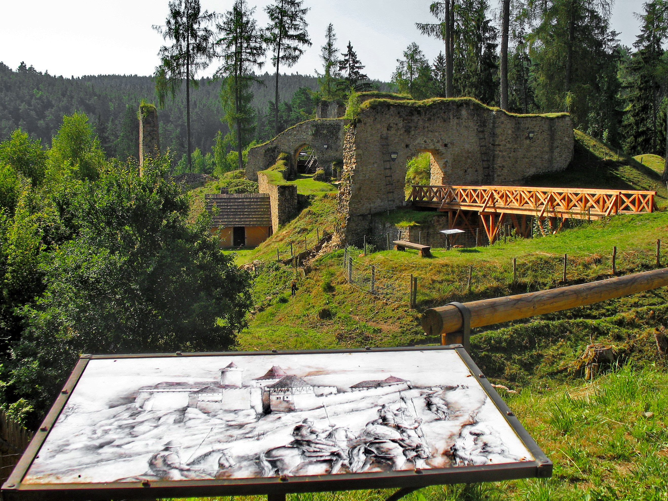 Pořešín Castle near Kaplice, Český Krumlov District, Czech Republic